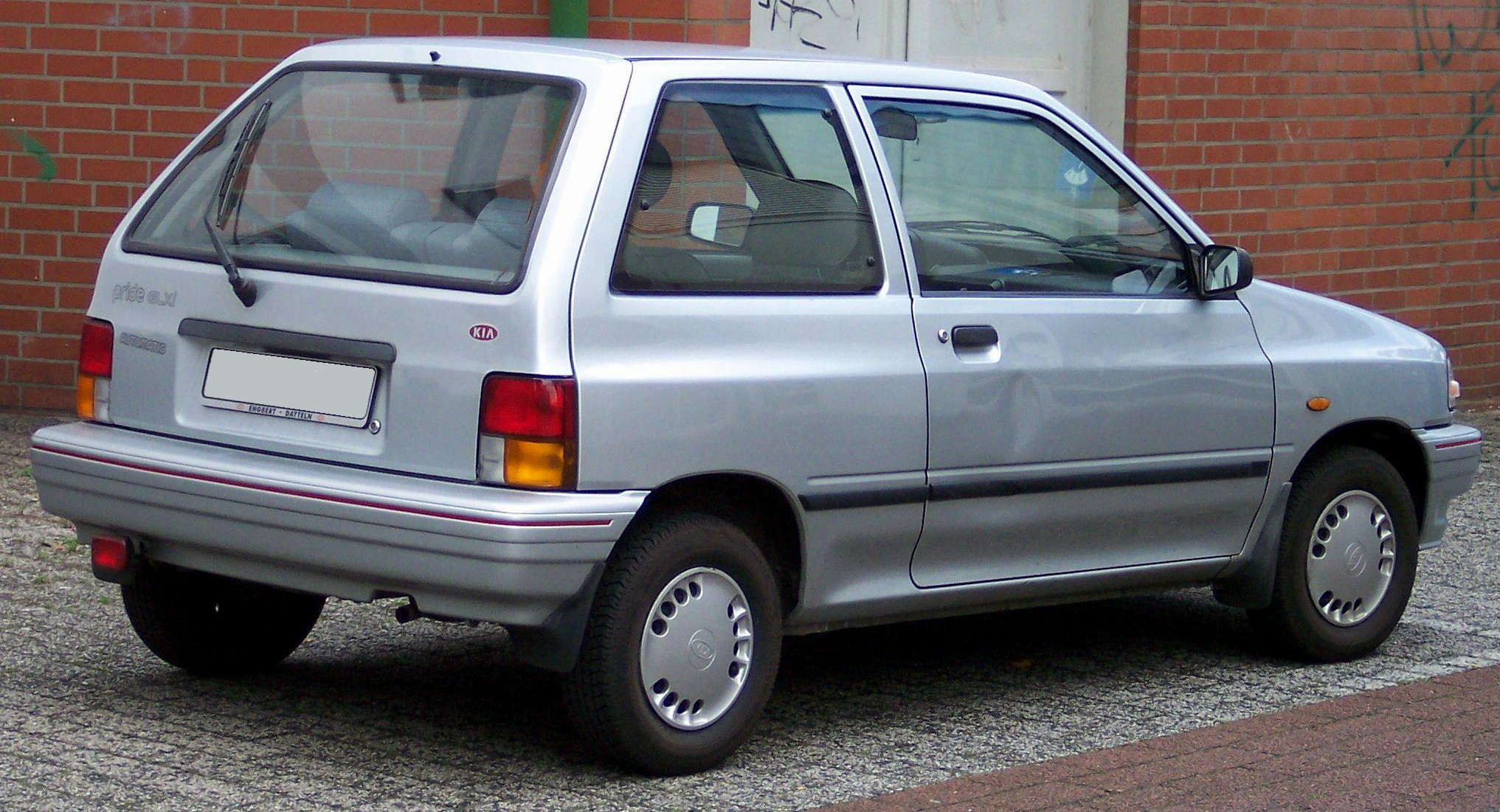 Kia Pride